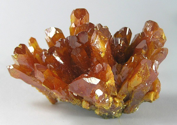 Orpiment Locality: Jiepaiyu Mine (Shimen Mine), Shimen As-(Au) deposit, Shimen County, Changde Prefecture, Hunan Province, China (Locality at ) Size: 6.4 x 3.9 x 3.4 cm. The orpiments from Peru and China have been overshadowed for some time by the beautiful specimens from Nevada that came out maybe 8 years ago. But occasionally, you get a killer like this that just blows you away and can keep up with even the Nevada ones. This is just an amazing Chinese orpiment. The color is magnificent, as is the candy-like luster. But, what is perhaps most striking is the elegant LENGTH of these crystals - to 2 centimeters! Further, there are only a couple of mildly contacted crystals, where so often you have a lot of bruising on these (as they are extremely soft). This is a real PRIZE for the species!